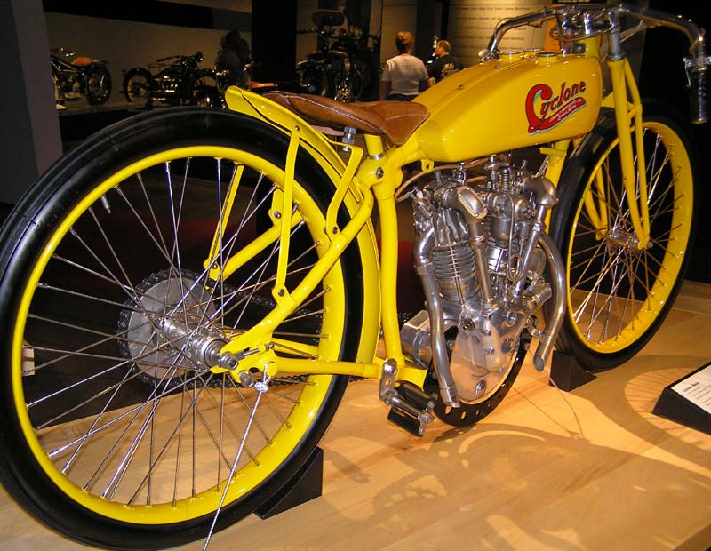 1914 Cyclone - The Art of the Motorcycle - Memphis. Bore x stroke 3-5/16 x 3-1/2 in. 61 cu-in. Power: 45 hp @ 5,000 rpm. Top speed: unknown. Collection of the Gilbert family.